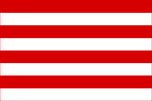 This flag is derived from the royal flag of the last kings of the Árpád dynasty, the first dynasty which ruled the medieval Hungary. For more informations see Árpád House Flag. As a modern political flag, it is also the semi-official symbol of a Hungarian christian nationalist party, the JOBBIK Magyarországért Mozgalom (Movement for a BETTER Hungary), founded in 2003. The flag is often borne also by the right-wing radical backers of the conservative parties in Hungary.